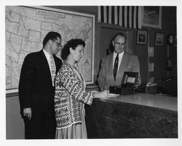 1956. Helena Weiss (Chief, Division of Correspondence and Documents, 1948-1956, Registrar, Office of the Registrar, 1956-1971), signs paperwork during the presentation of the Roentgen X-ray tube. George B. Griffenhagen, curator of the Division of Medicine and Public Health, stands to Weiss' left and Bane stands on the other side of the desk. One of the first x-ray tubes used by Wilhelm Konrad Roentgen is presented to the United States National Museum for exhibit. Roentgen in 1895 discovered a new radiation called "X-rays" or Roentgen rays.